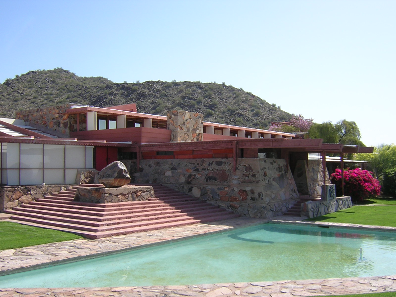 Fountain and terrace, with dining and dormitory area beyond, Taliesin West